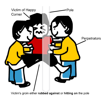 Derivative of Image:Happycorner.jpg which was released under the GFDL by its creator, User:Mcy jerry. It depicts a Happy Corner ceremony.